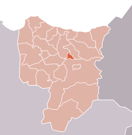 Ben Taieb, driouch province, morocco2